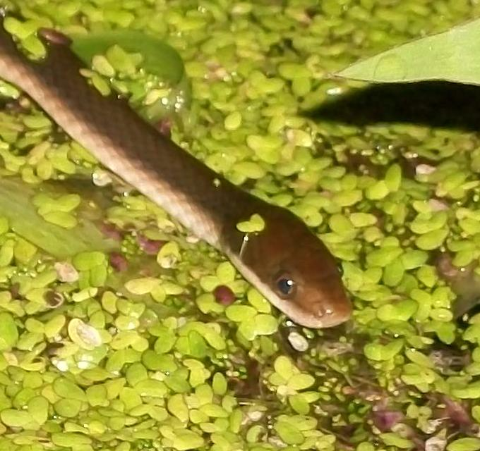 Brown Water Snake Lycodonomorphus rufulus at Ilanda Wilds, Amanzimtoti, South Africa.